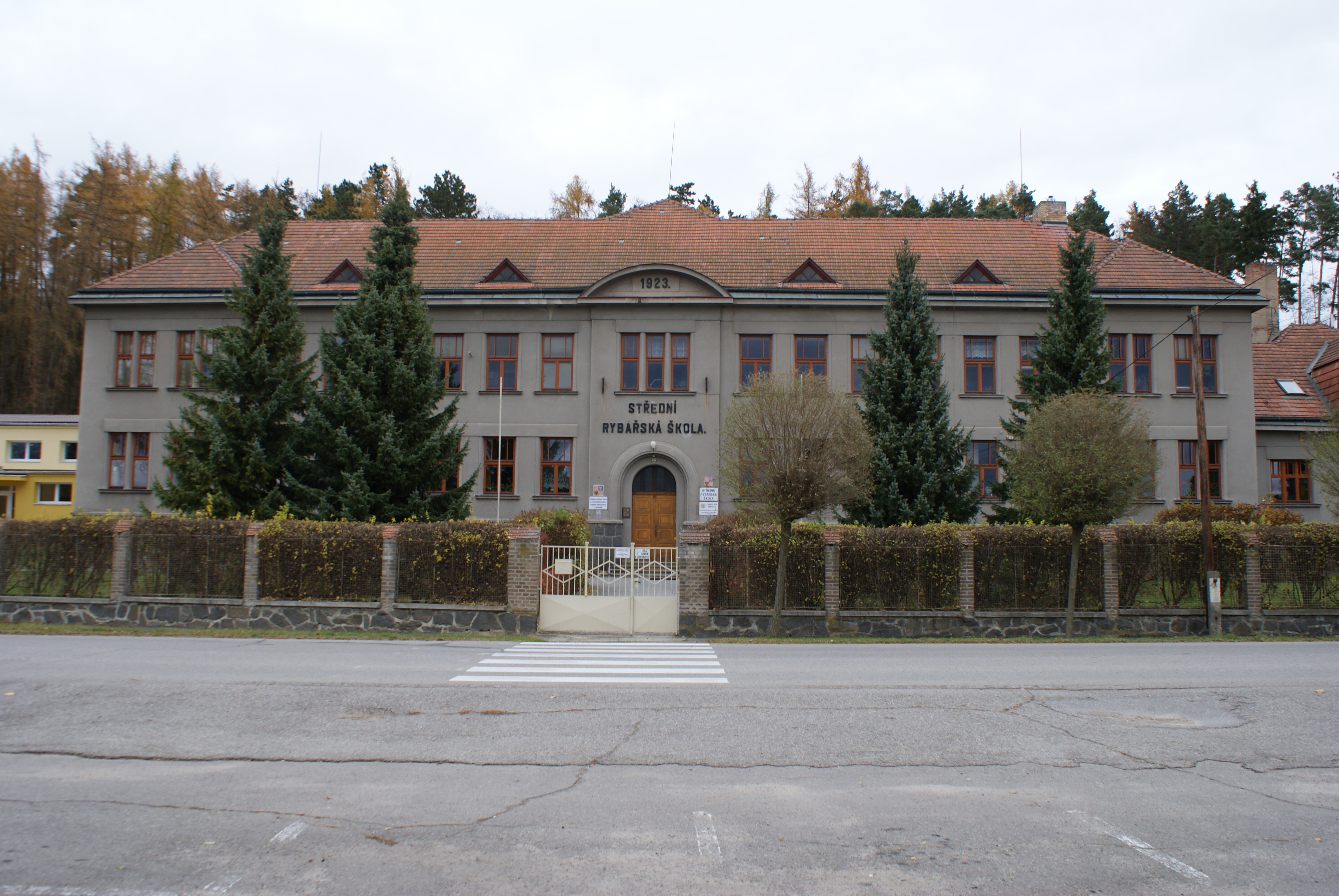 Vodňany a town in Strakonice district, Czech Rep., the old building of the Fishery college.